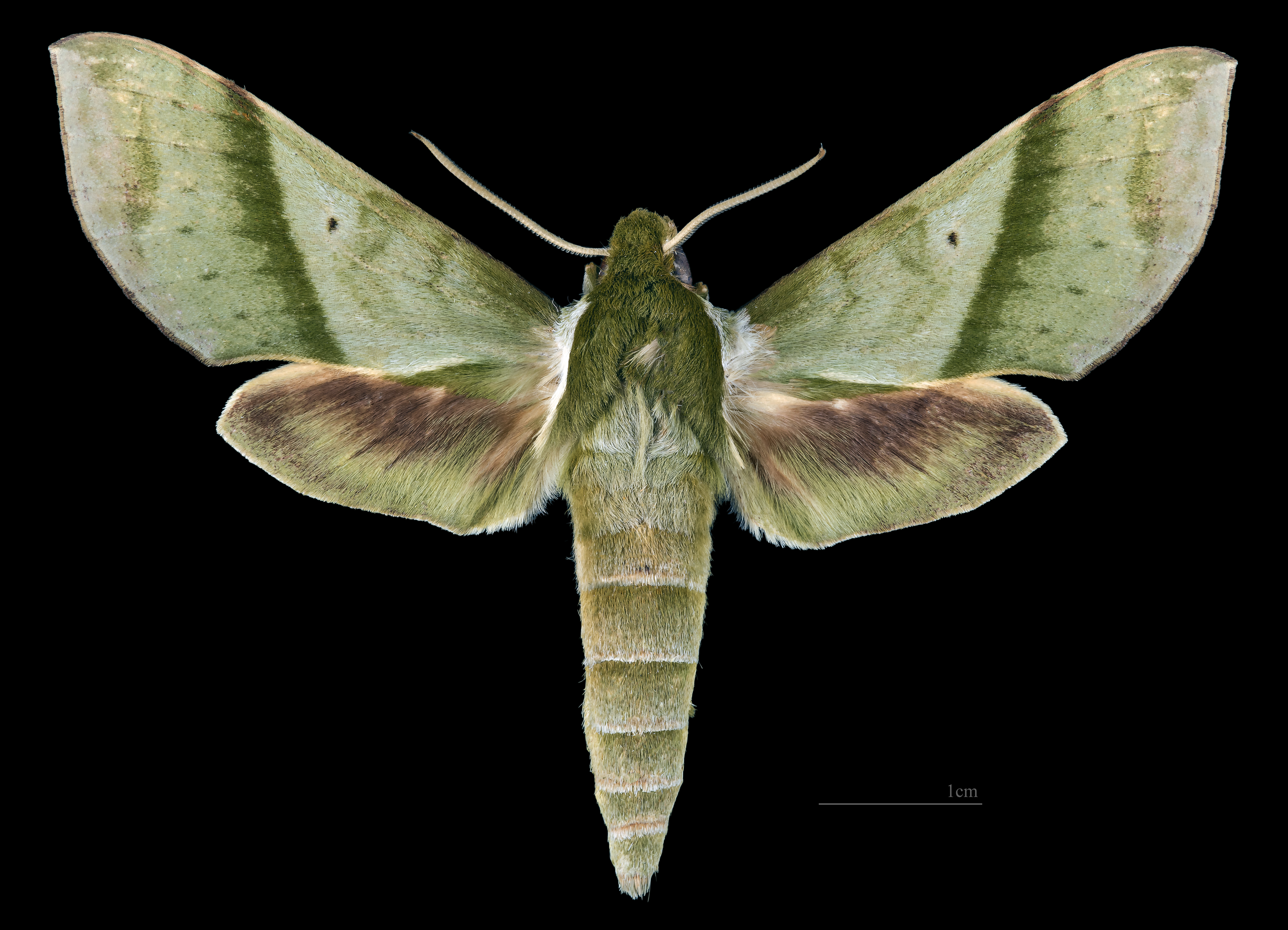 Xylophanes marginalis - Dorsal side Collection of the Mathematician Laurent Schwartz